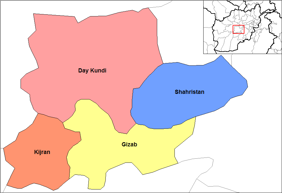 Map of the districts of Daikundi province of Afghanistan. Created by Rarelibra 19:20, 29 March 2007 (UTC) for public domain use, using MapInfo Professional v8.5 and various mapping resources.